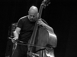 Ingbrigt Haaker Flaten